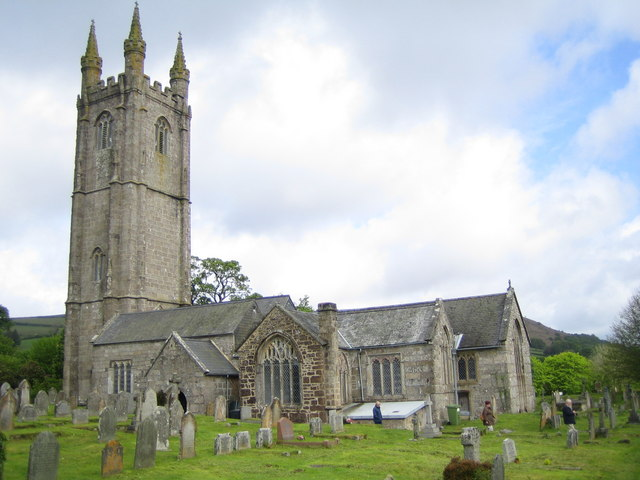 Widecombe-in-the-Moor: Church of St Pancras Known as the Cathedral of the Moor because of its size, the Church dates from the 14th century with later additions over the next two centuries. On 21 October 1638, whilst a service was taking place, the Church was struck by lightning during a severe thunderstorm and one of the pinnacles fell through the roof. Four people were killed and about sixty injured.